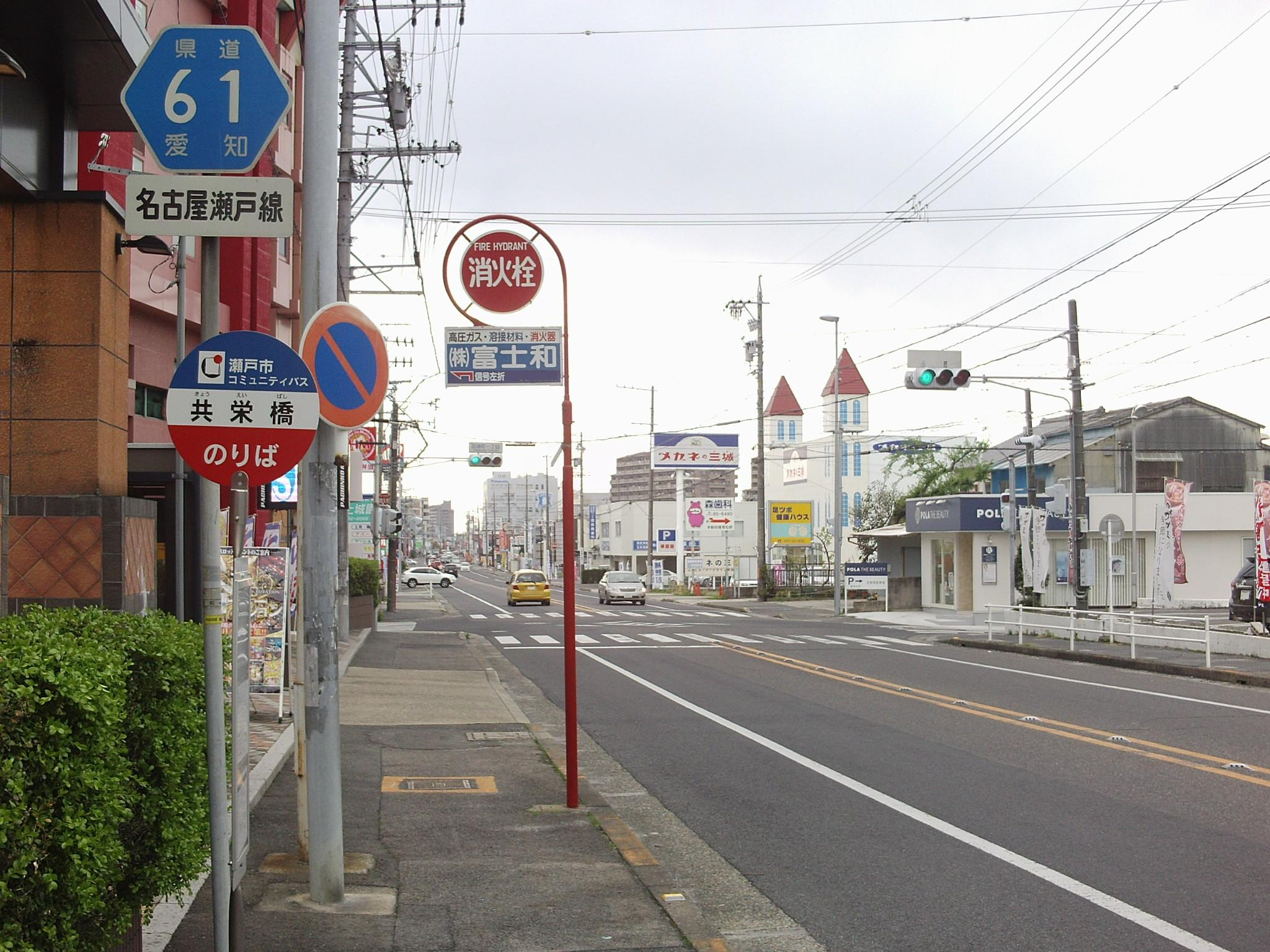 Aichi prefectural road No.61 in Kawanishicho 1-chome, Seto, Aichi.